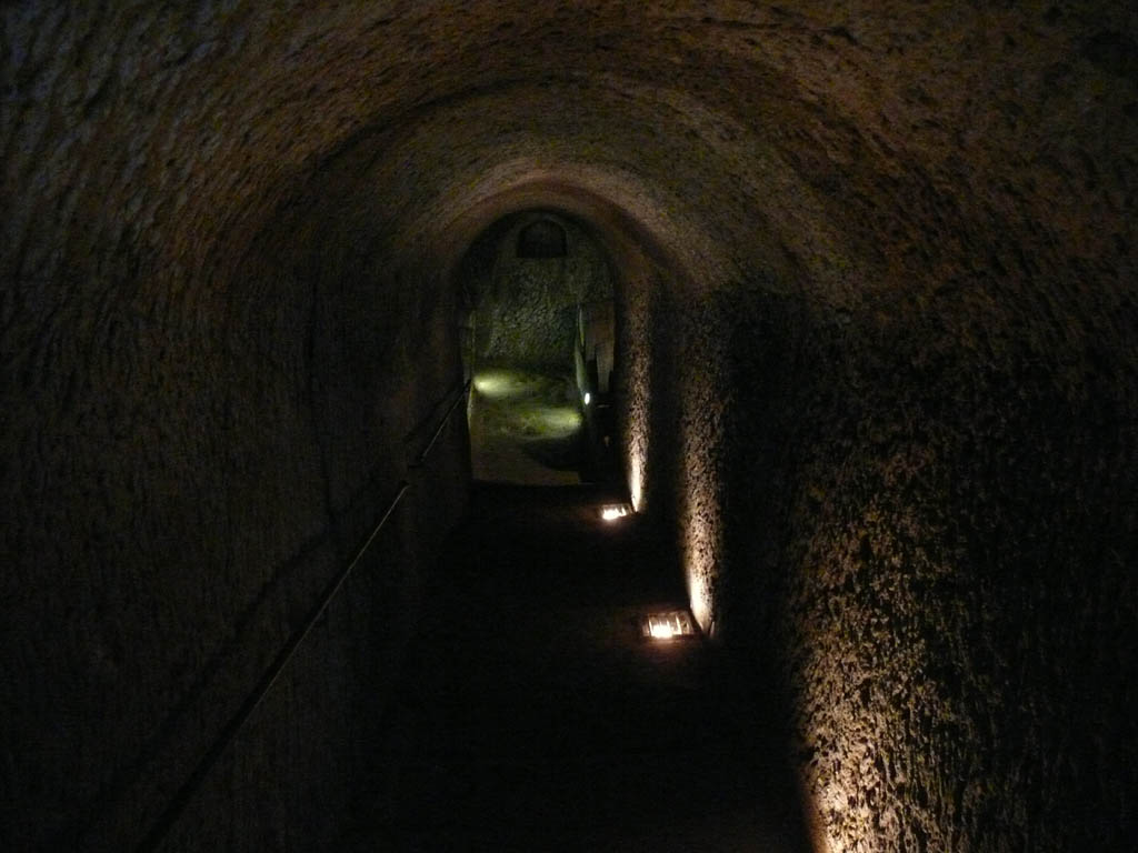 "Little Jerusalem", the Jewish Ghetto of Pitigliano, stairs to the kosher cellar cut into the tufa rock